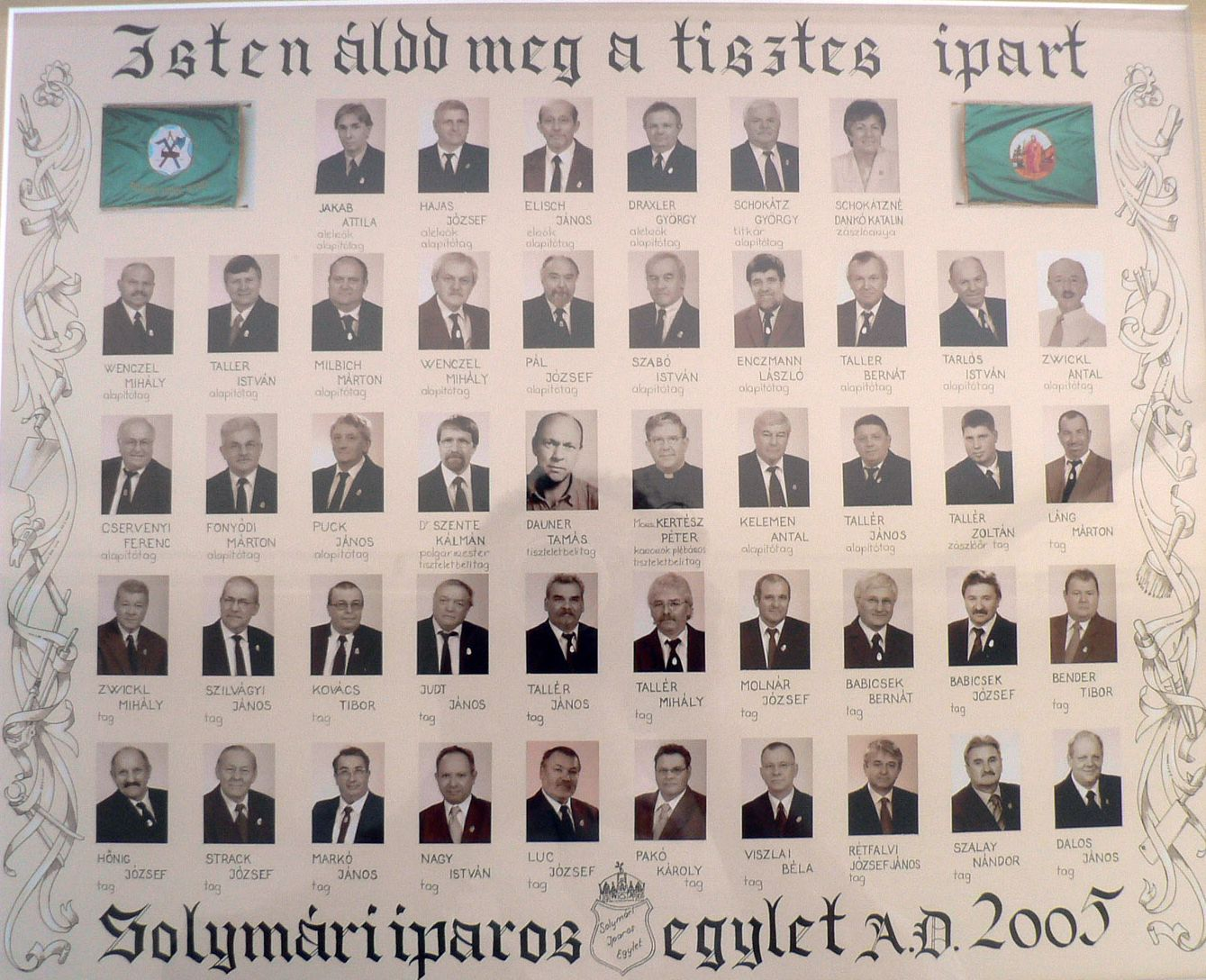 A Solymári Iparos Egylet tablója